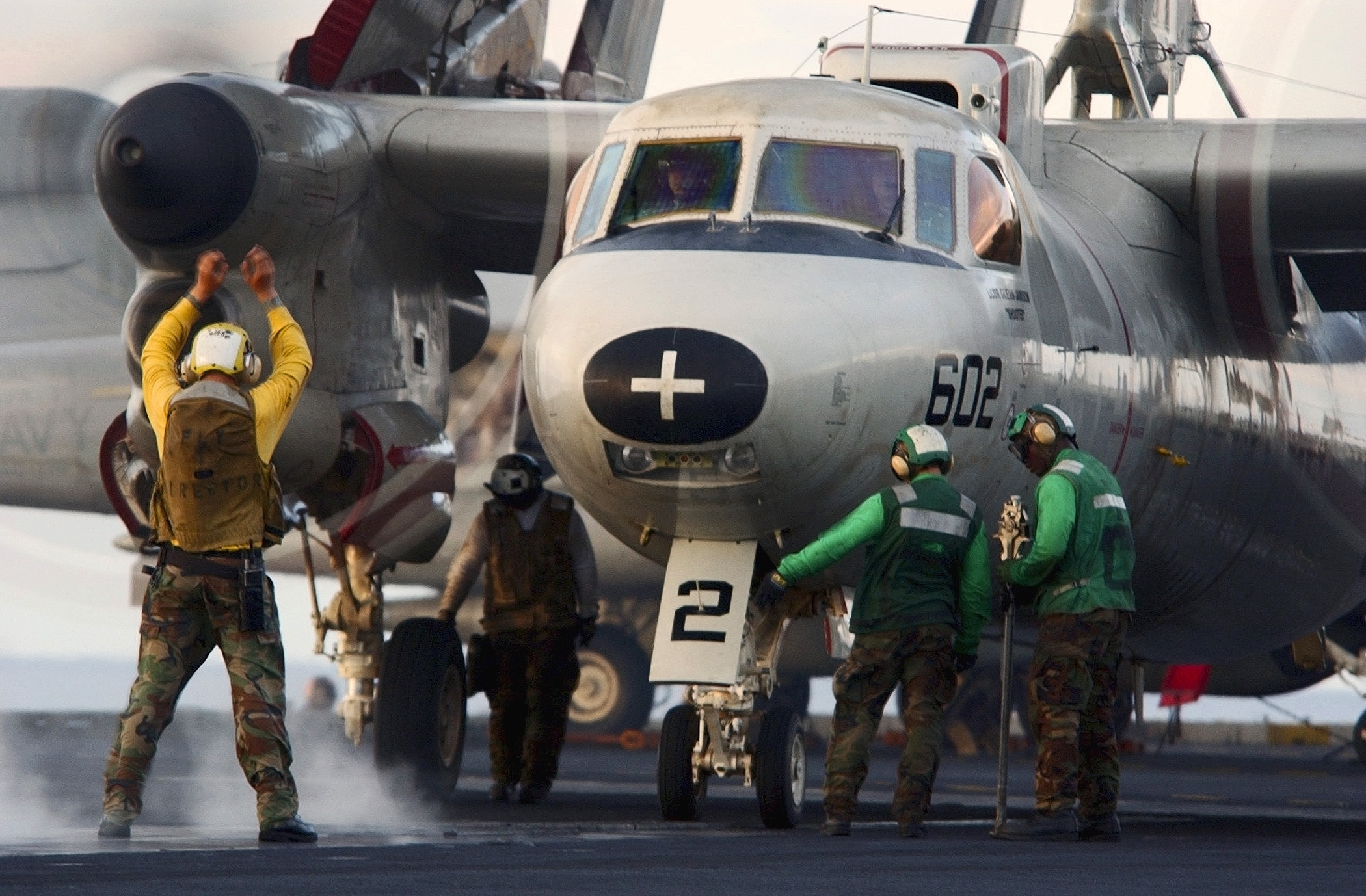 South China Sea (Aug. 14, 2003) -- An E-2C Hawkeye assigned to the “Golden Hawks” of Airborne Early Warning Squadron One One Two (VAW-112) is guided onto one of four steam-powered catapults aboard USS Carl Vinson (CVN 70) during flight operations. The Vinson Carrier Strike Group is currently on an extended deployment in the Western Pacific. U.S. Navy photo by Photographer's Mate Airman Dustin Howell. (RELEASED)